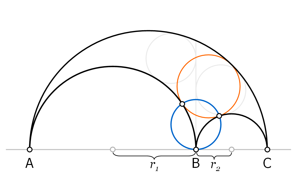 Arbelos – Bankoff triplet circle